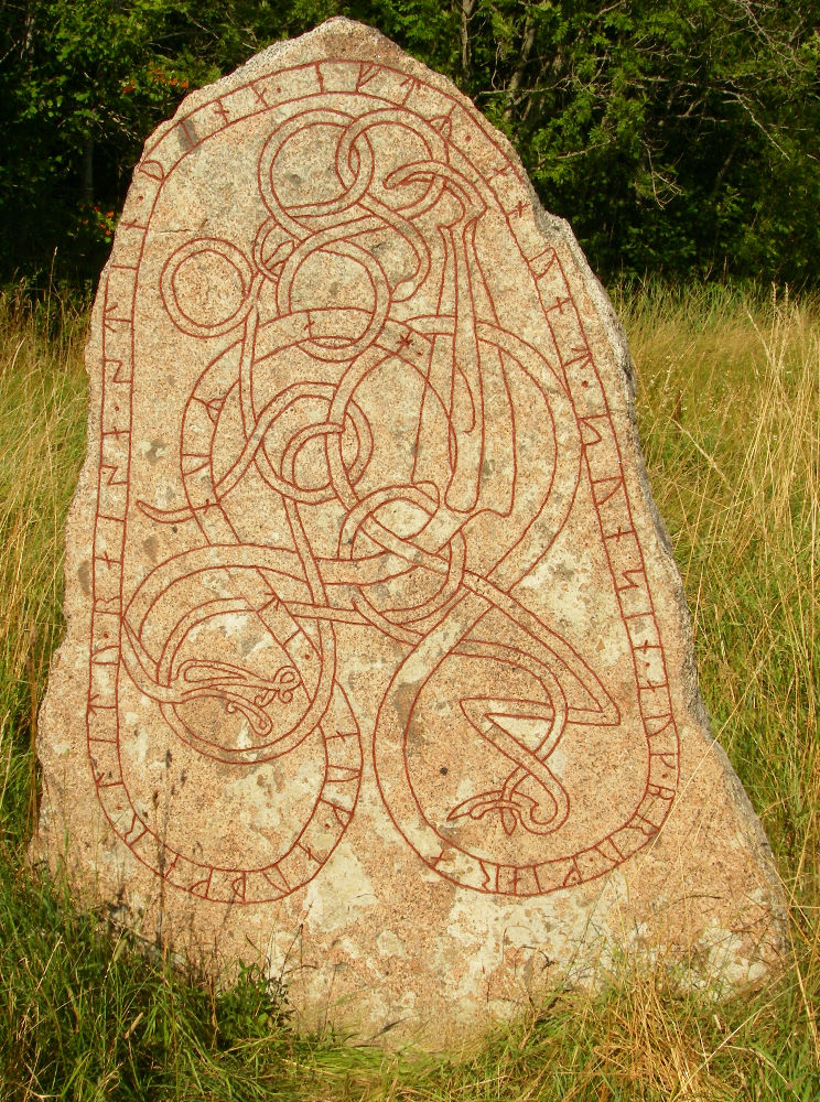 runic stone Upplands runinskrifter U839